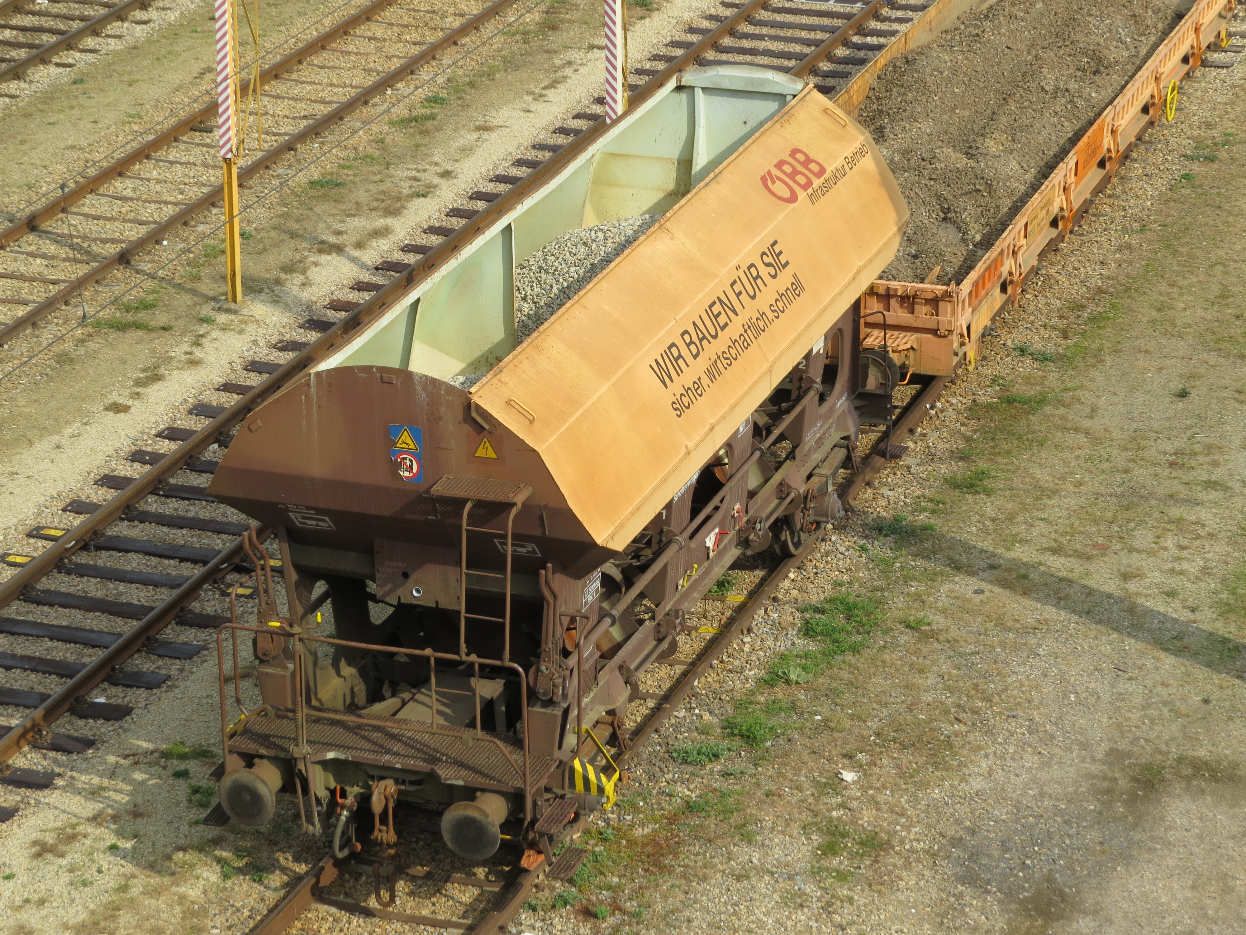 Gravel wagon 40 81 9421 at train station Krems on the Danube seen from the parking garage